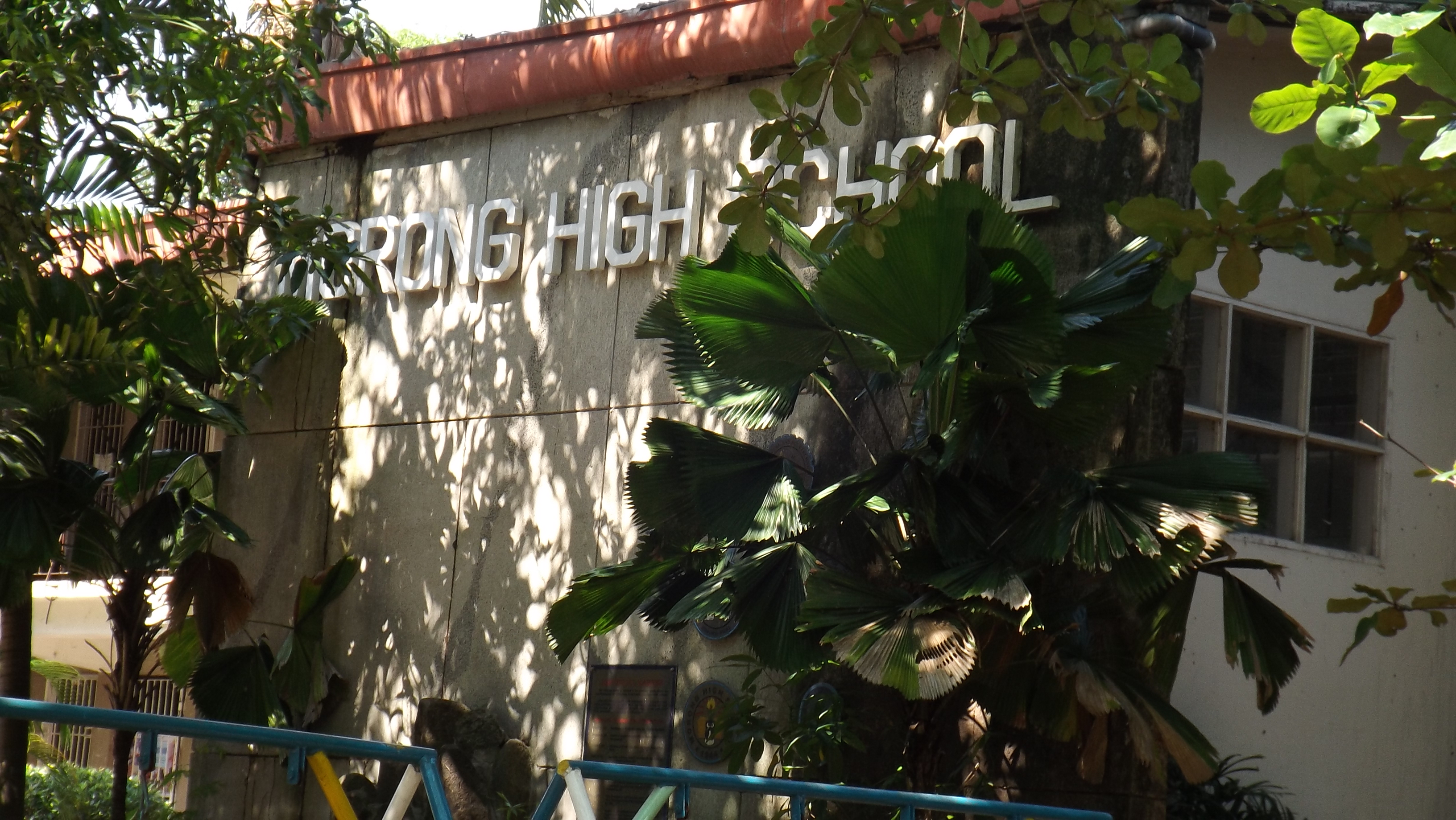 Facade